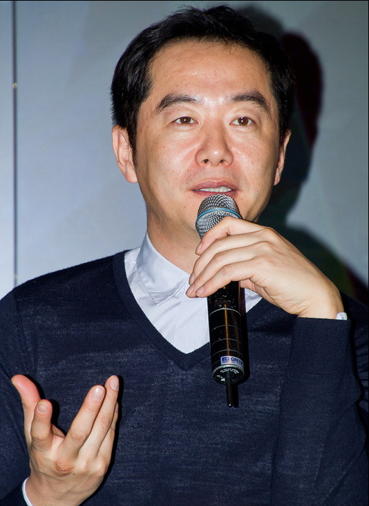 Jang Jin at tvN Korea's Got Talent season 1 premiere, in March 2011